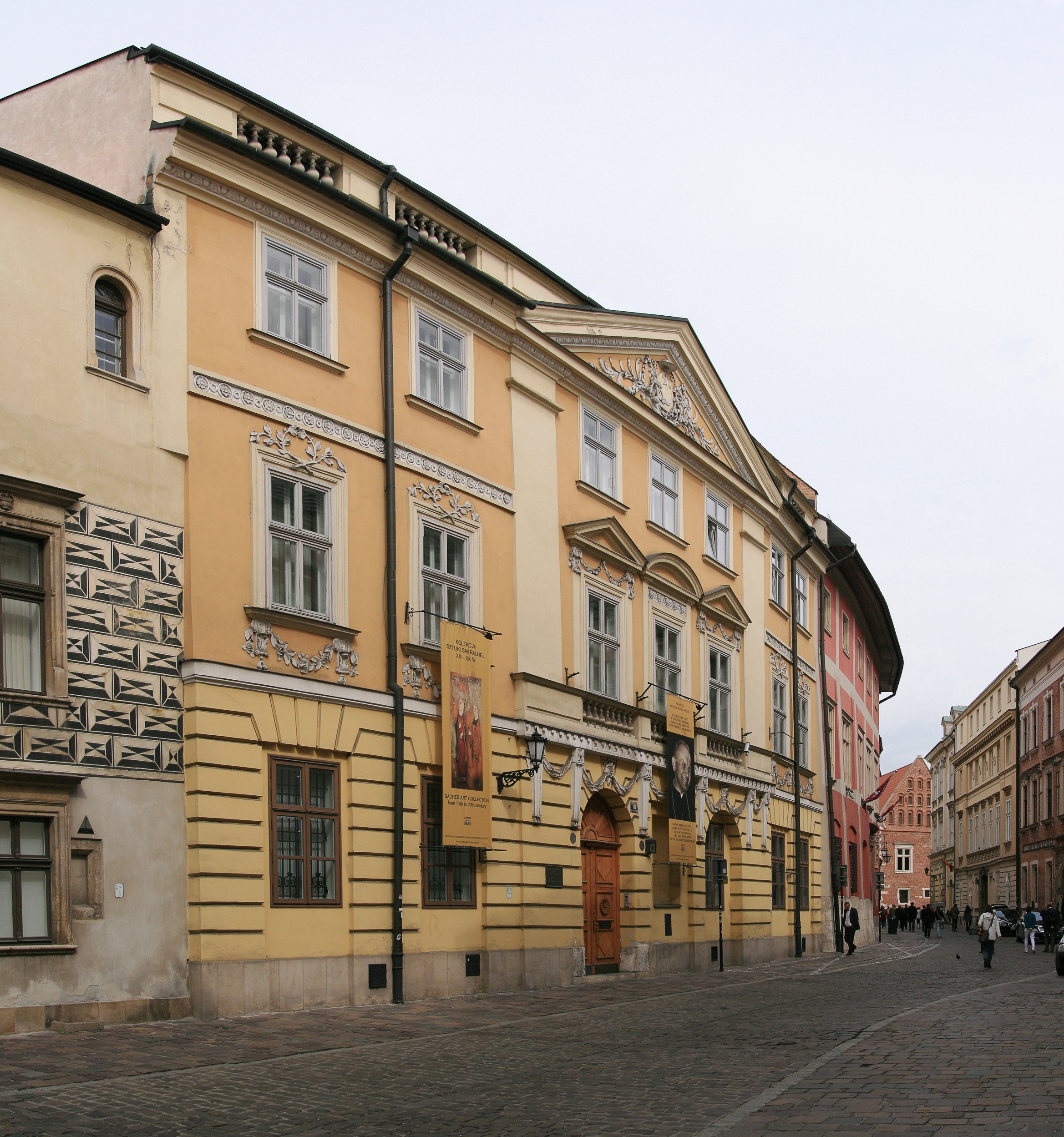 John Paul II Center, Kanonicza Street 19, Krakow